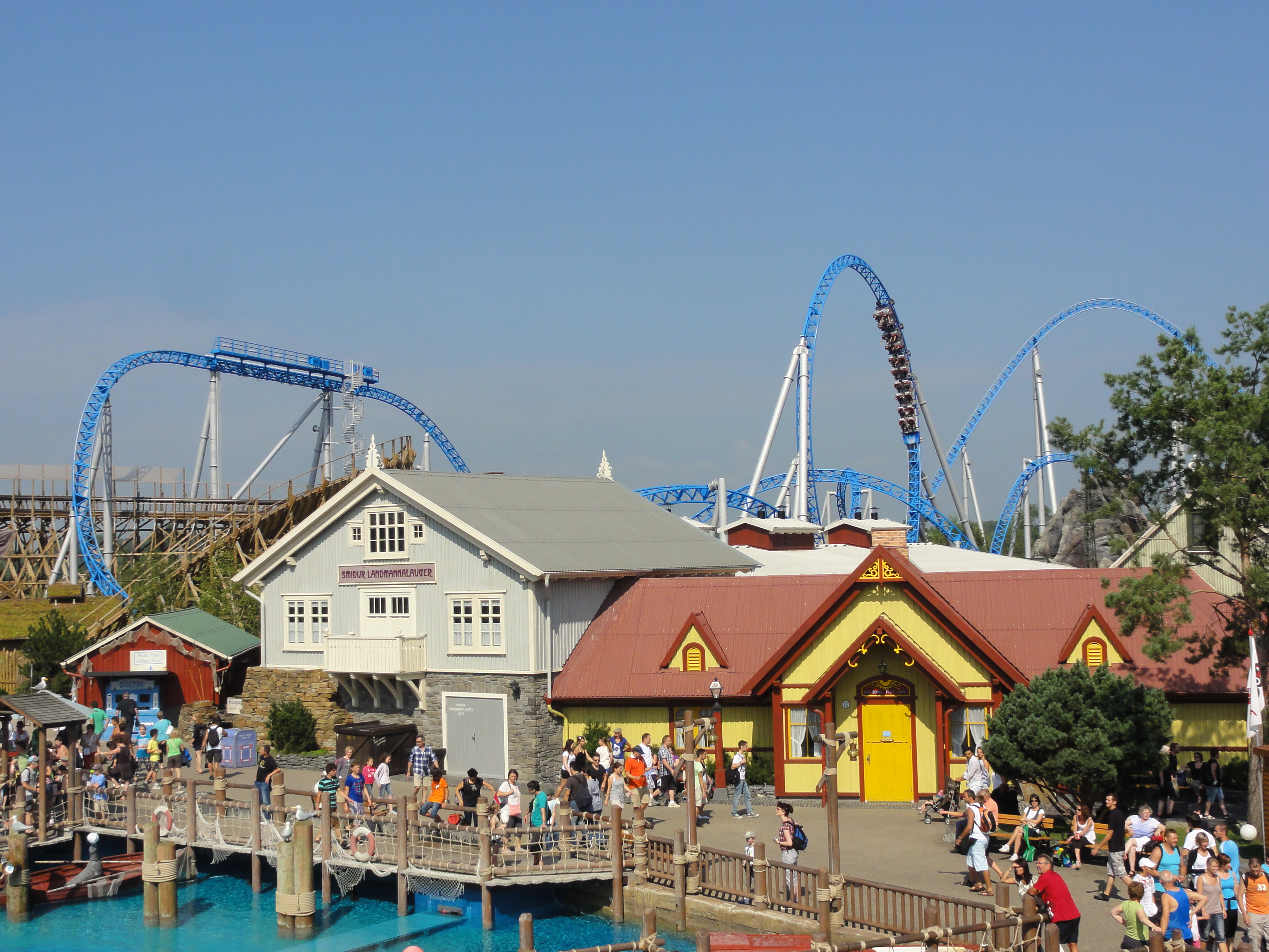 Blue Fire Megacoaster, Europa-Park, Rust, Baden-Württemberg, Germany.